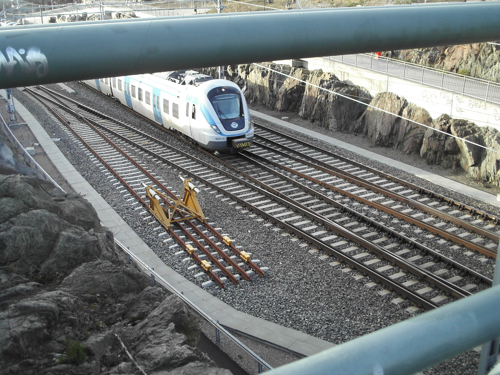 Protection switch